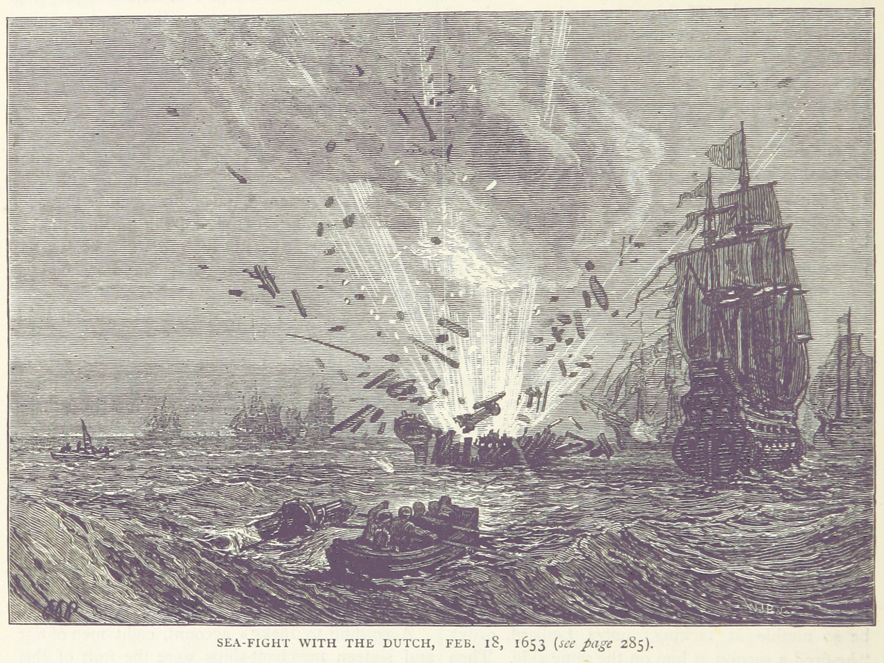 The February 18, 1653 Battle of Portland.